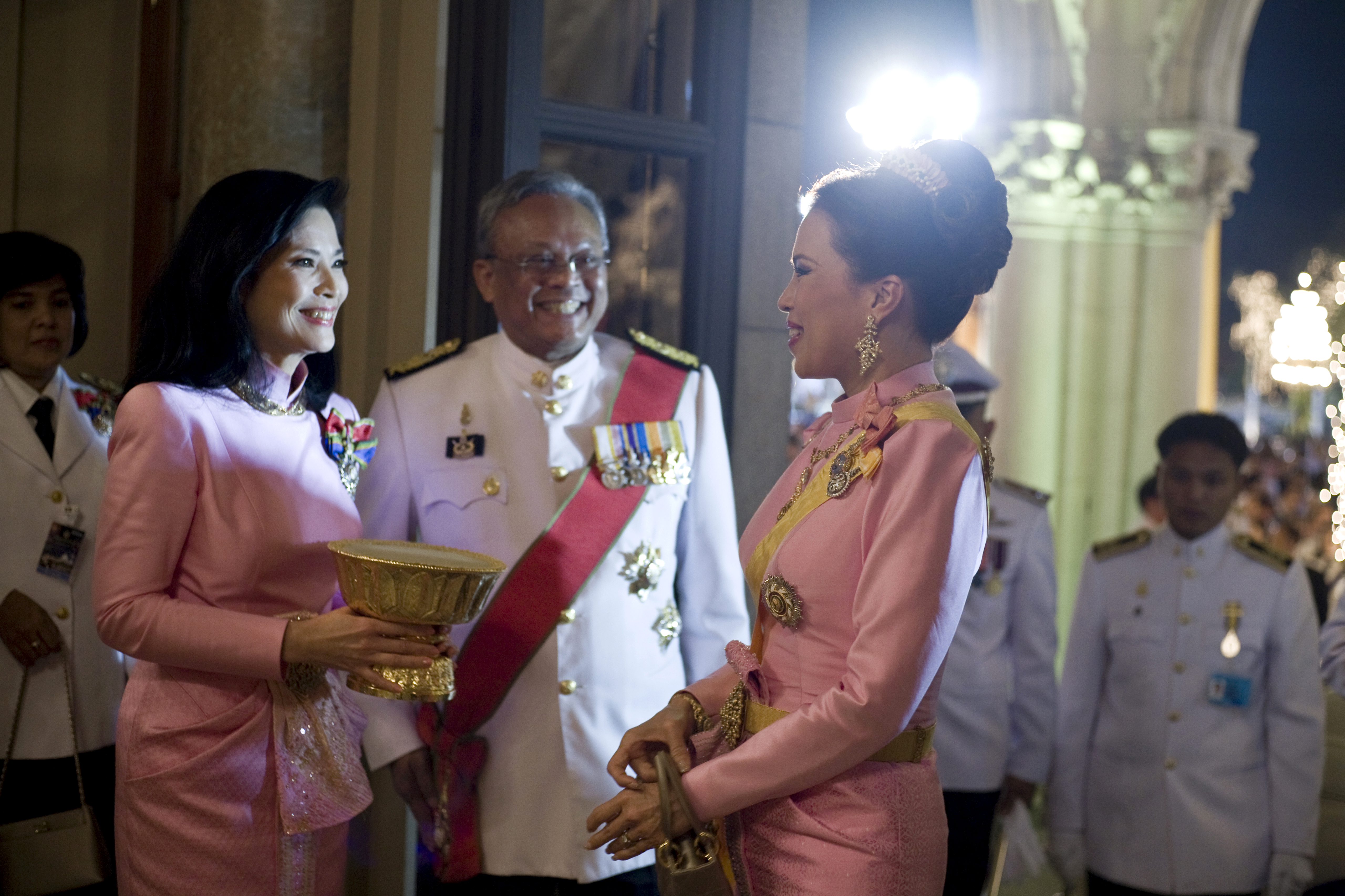 Princess Ubolratana Rajakanya at the Royal Thai Government House on December 7, 2009, at a gala dinner (งานสโมสรสันนิบาต) hosted by the goverment in honour of HM the King's birthday. (The Official Site of The Prime Minister of Thailand Photo by พีรพัฒน์ วิมลรังครัตน์)